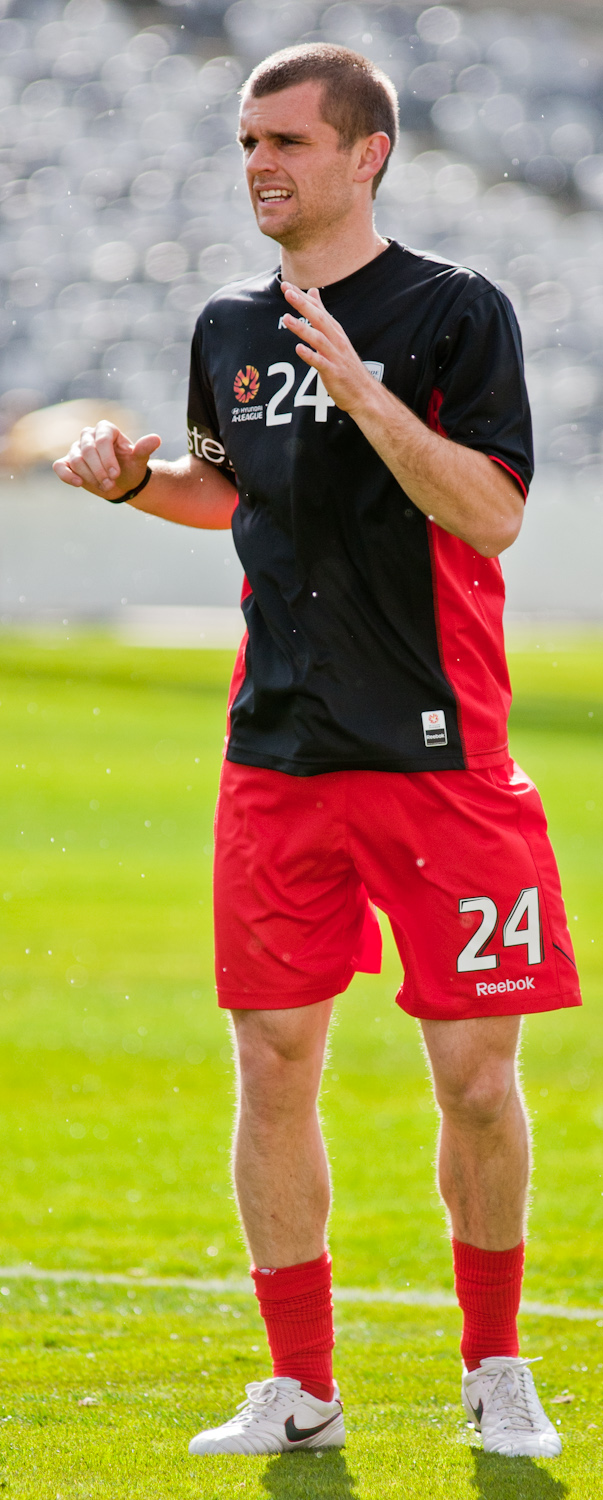 Cameron Watson warming up with Adelaide United before an A-League Round 2 game against the Central Coast Mariners.